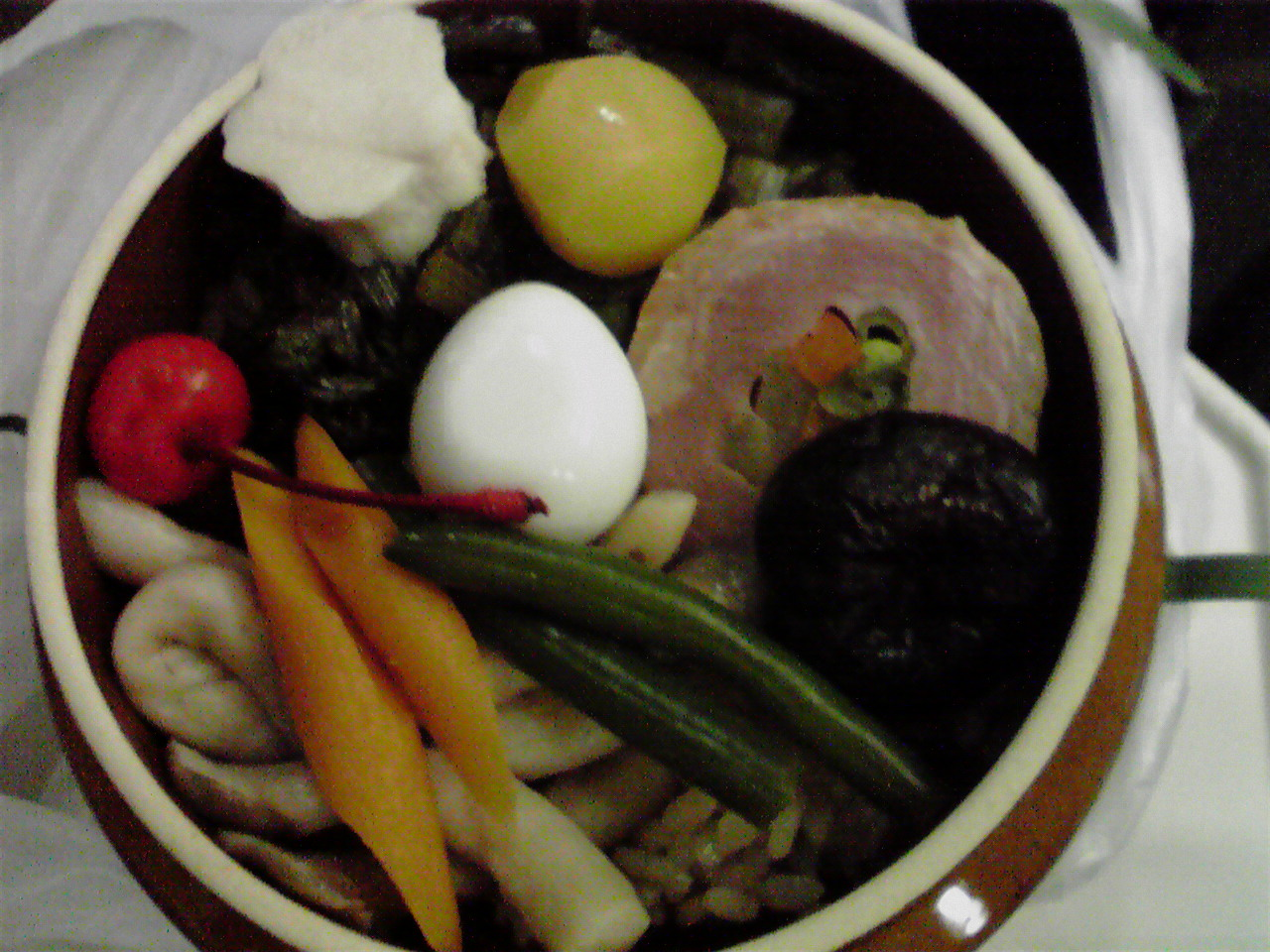 "Azumino-Kamameshi", an ekiben sold at Matsumoto Station in Matsumoto, Nagano, Japan.